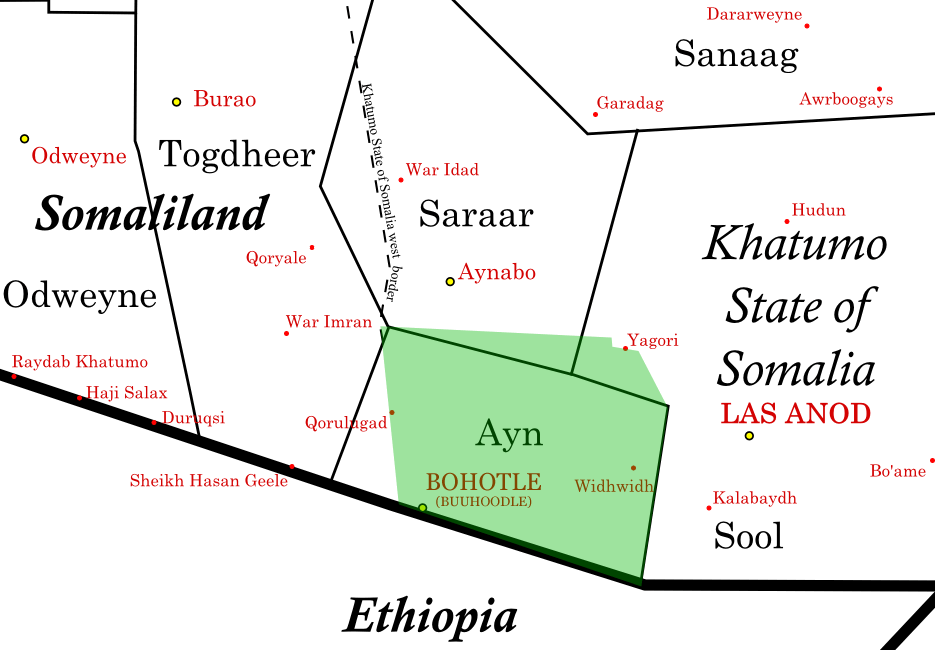 Former Buhoodle District (green) and actual region borders (Somalia)